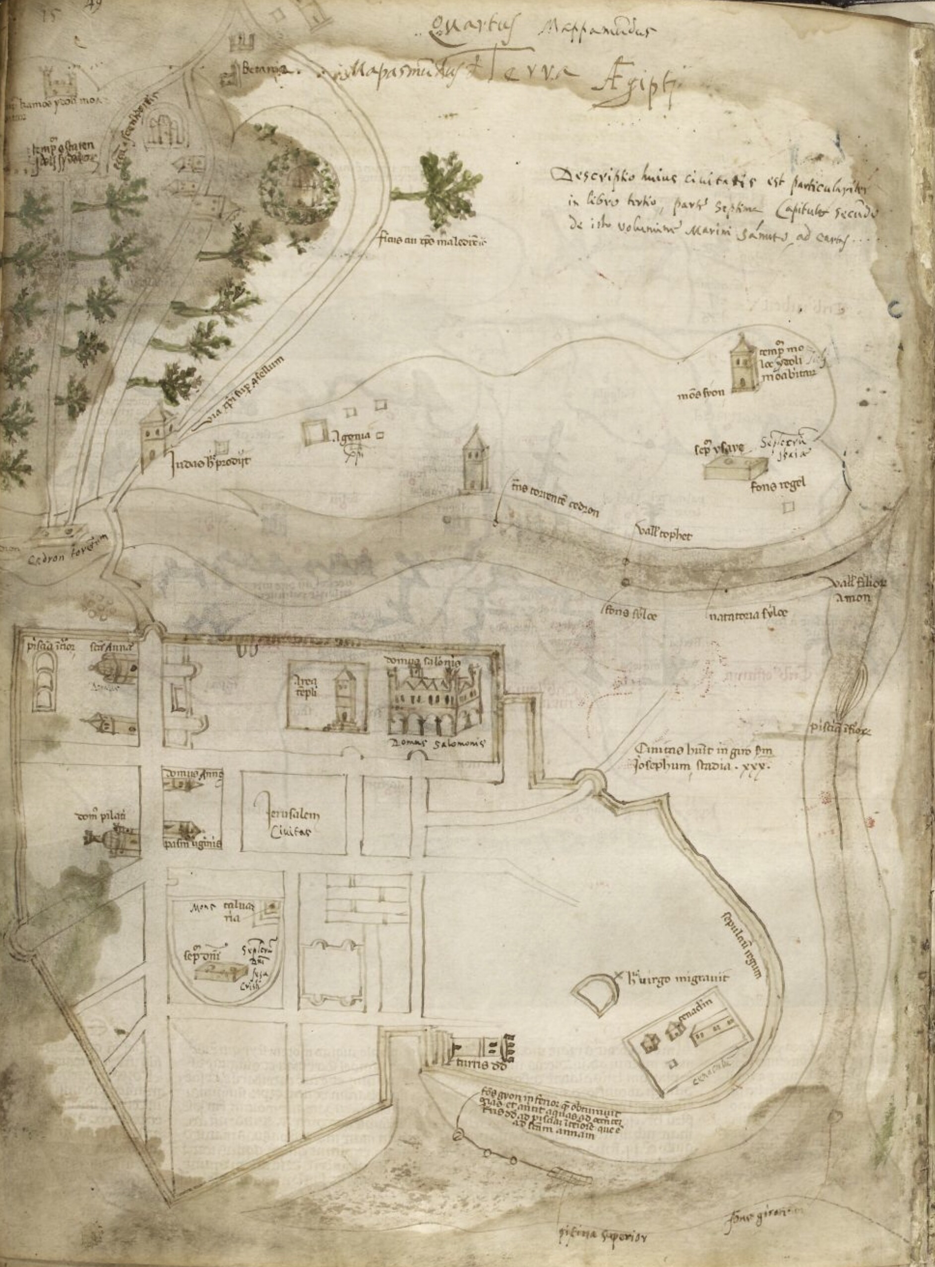 1321 map of Jerusalem from Sanudo-Vesconte’s Liber Secretorum; See Evelyn Edson‘s Jerusalem under Siege: Marino Sanudo’s Map of the Water Supply, 1320